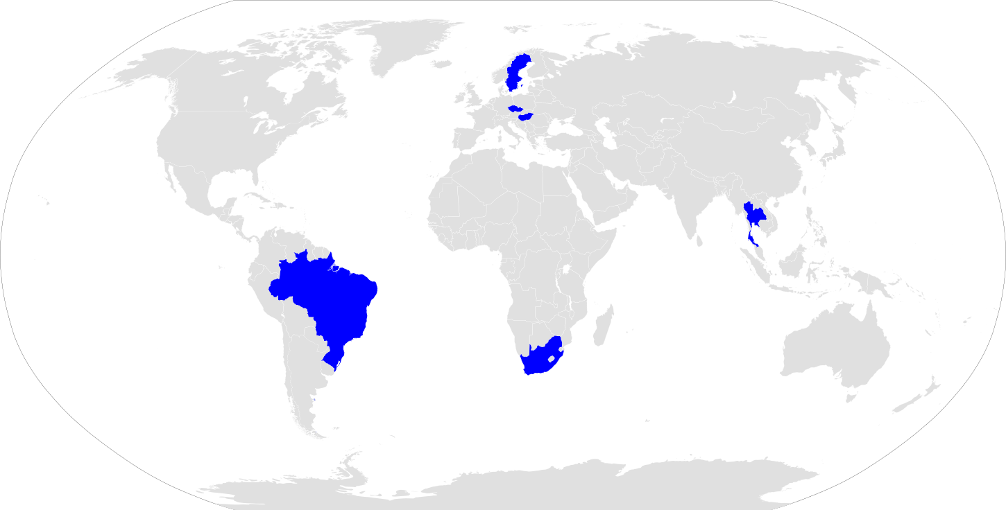 Gripen operators in blue with orders in cyan